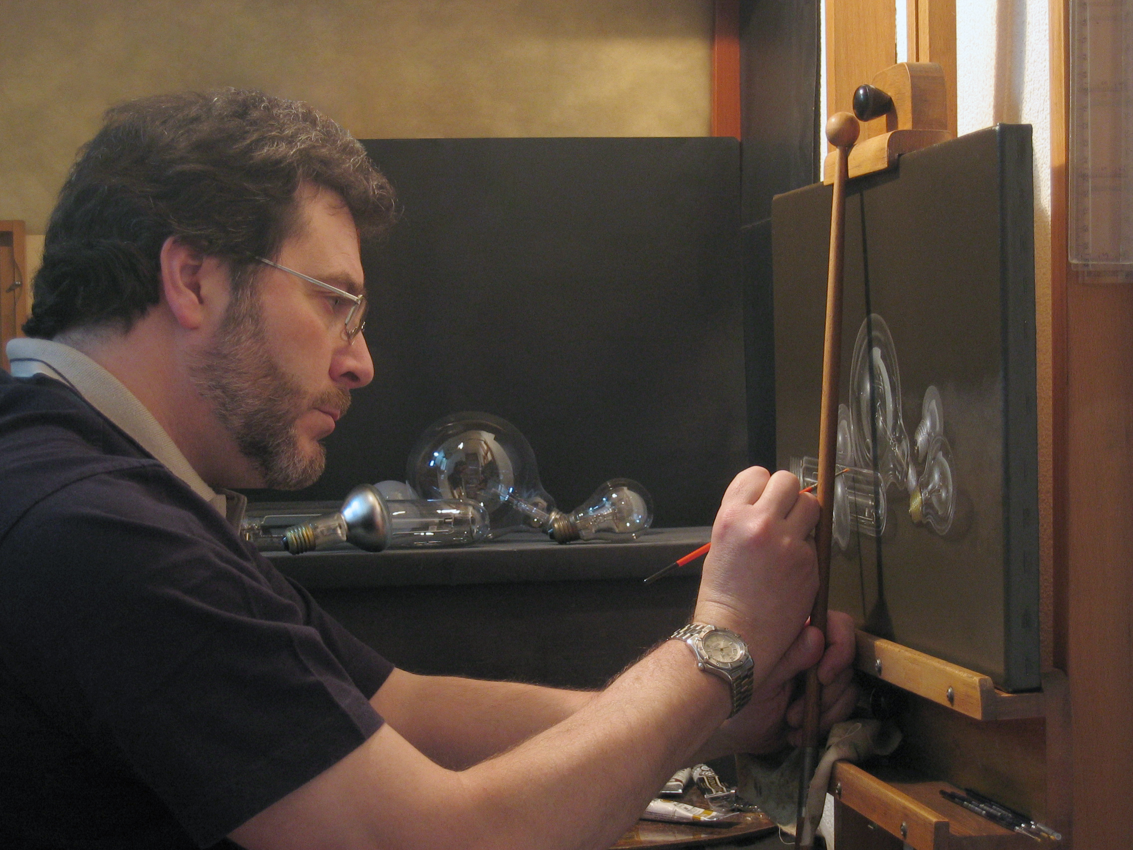 Josep-Enric Balaguer at his studio in Sabadell, 2007